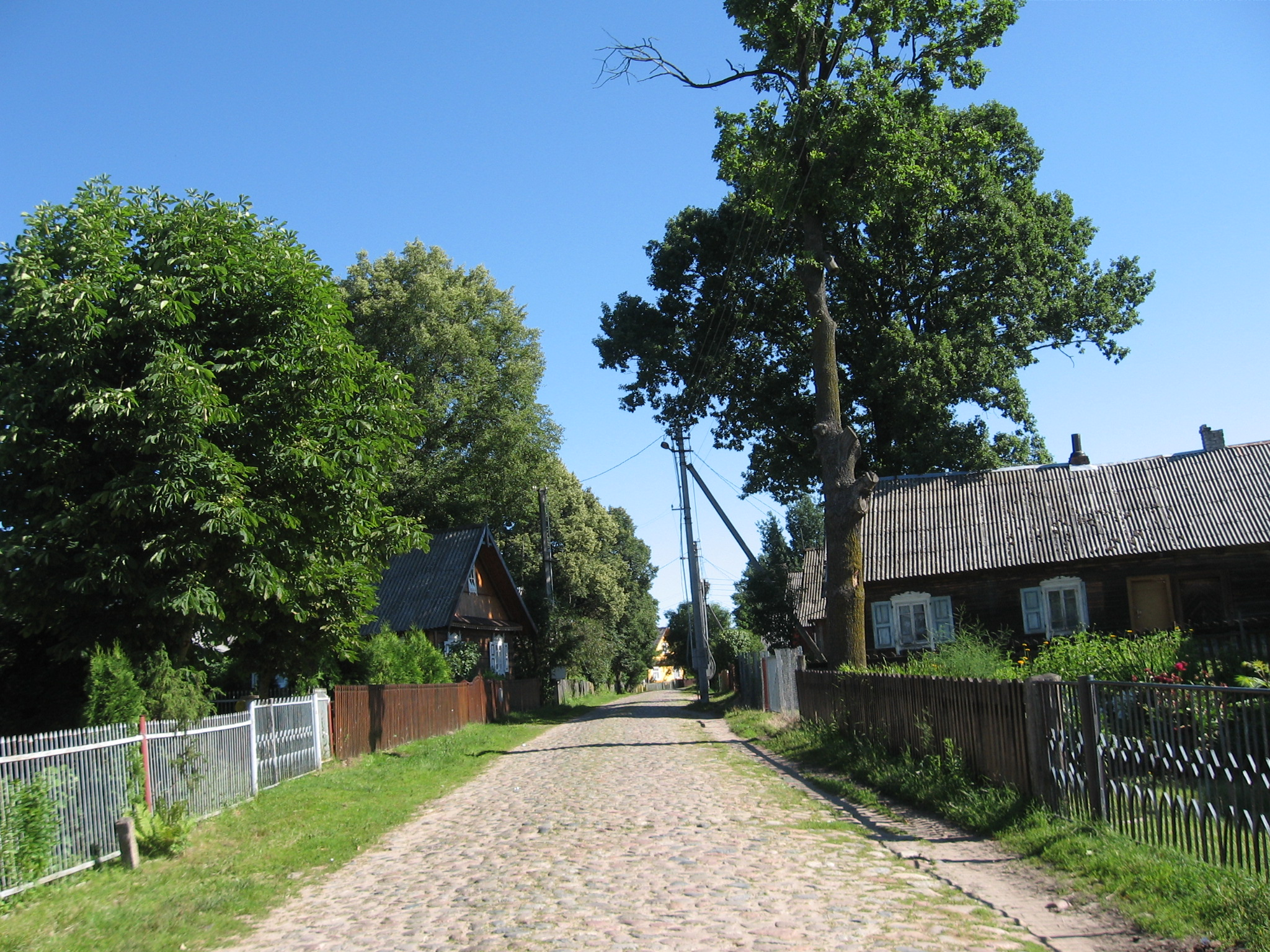 The main street of Čižiūnai village.